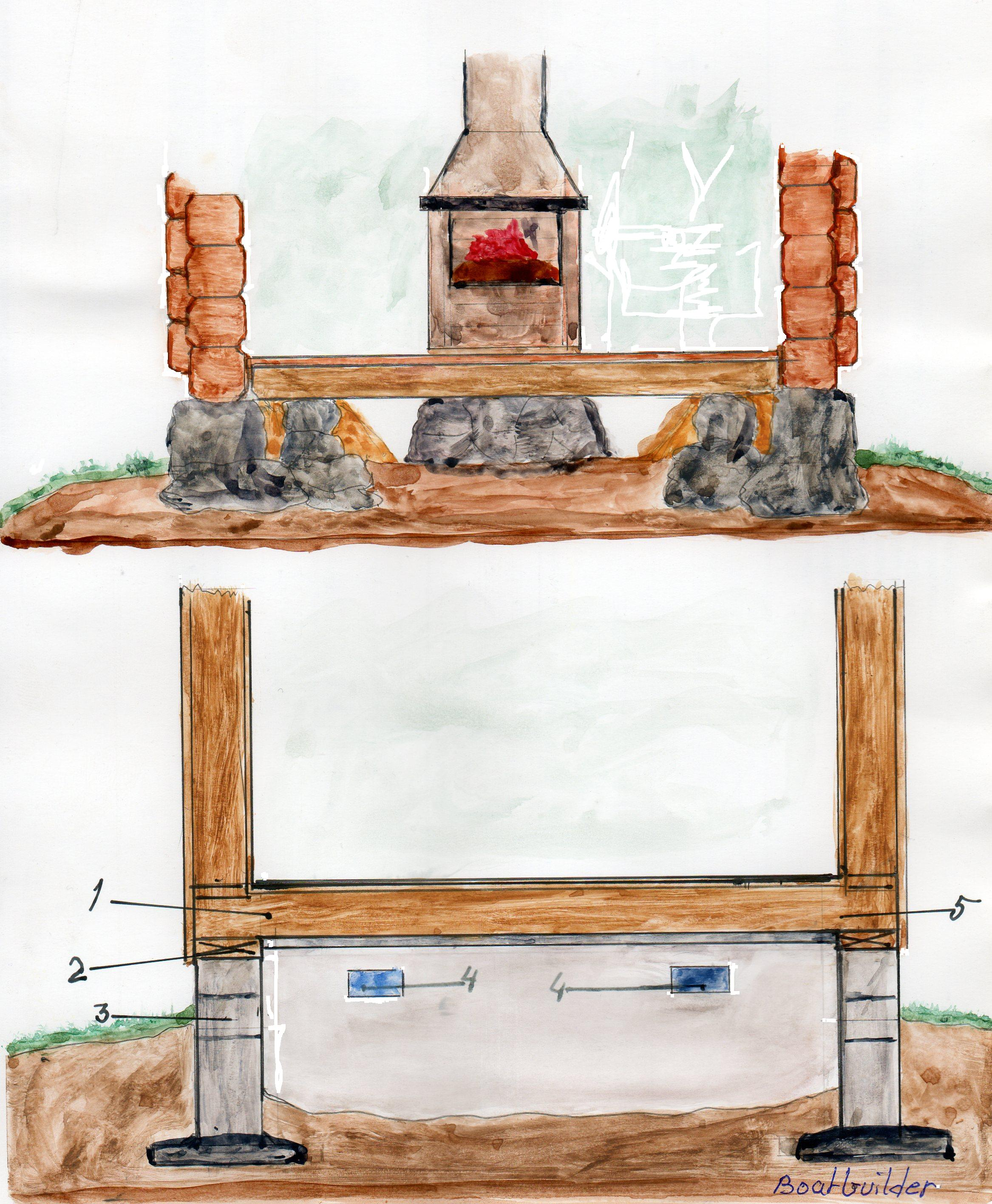 crawl spaces.